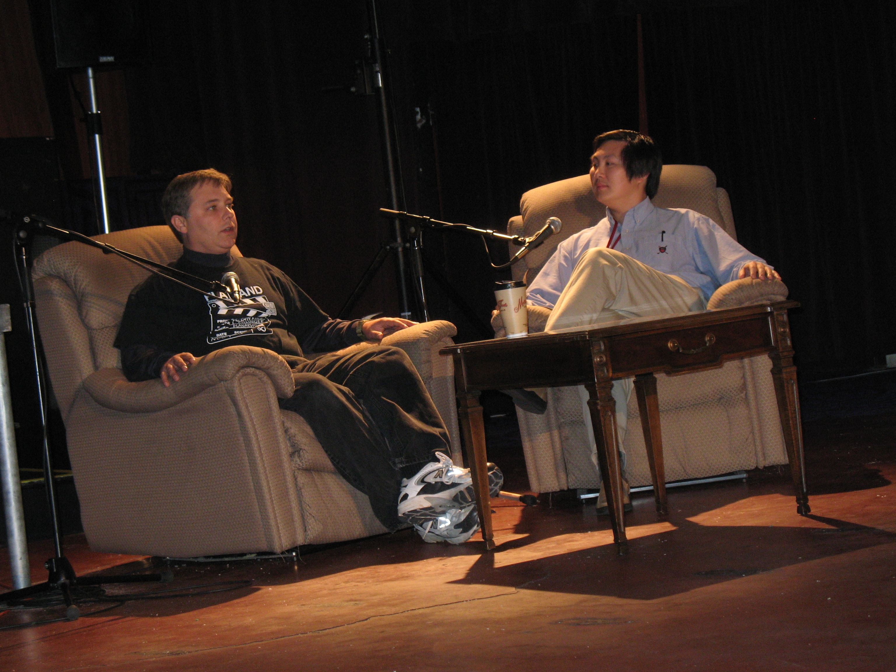 Ladd Ehlinger Jr. (left) discussing his 2007 feature film "Flatland" with Joseph C. Chen, the curator of the Waterloo Festival for Animated Cinema (WFAC)